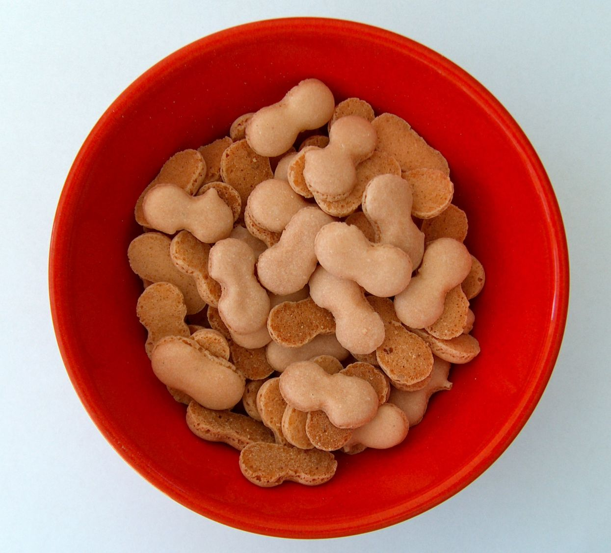 Wibele (a kind of cookies) in a bowl